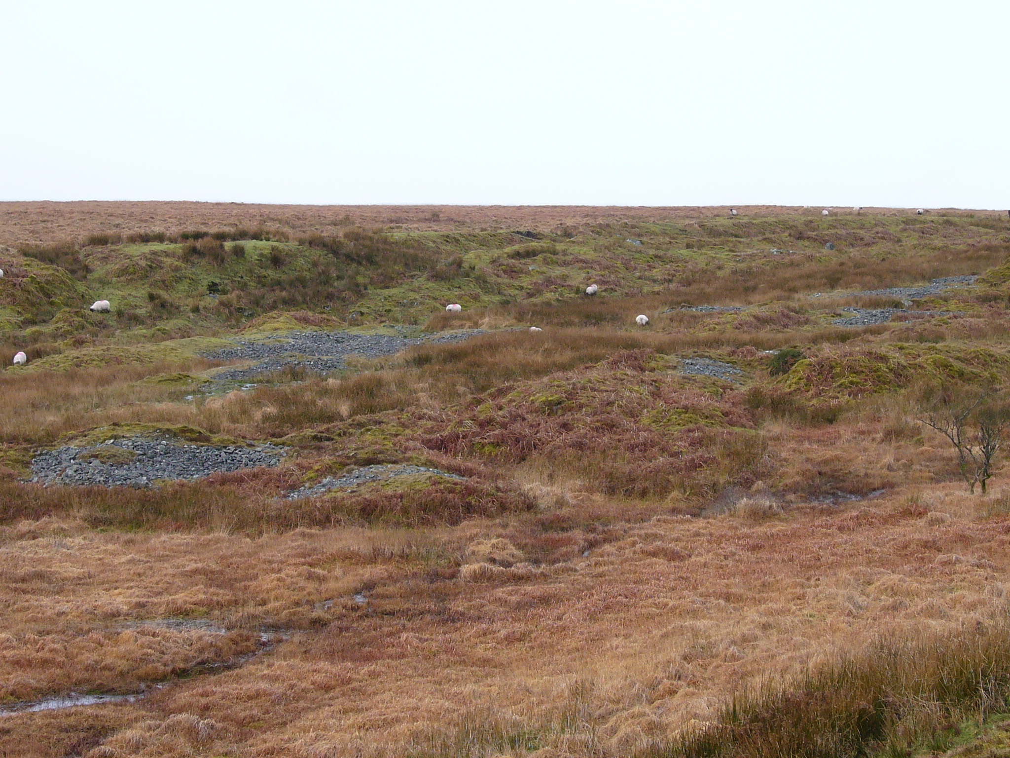 Typical Dartmoor tin streaming area. The areas of rock are "spoil" heaps of discarded material. This one is Petre's pits at the head of the Bala brook.